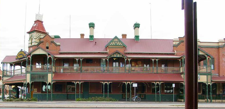 Photo taken and supplied by Brian Voon Yee Yap. Exchange Hotel.